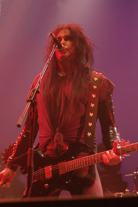 WASP' concert at Moscow, Russia (Blackie Lawless)